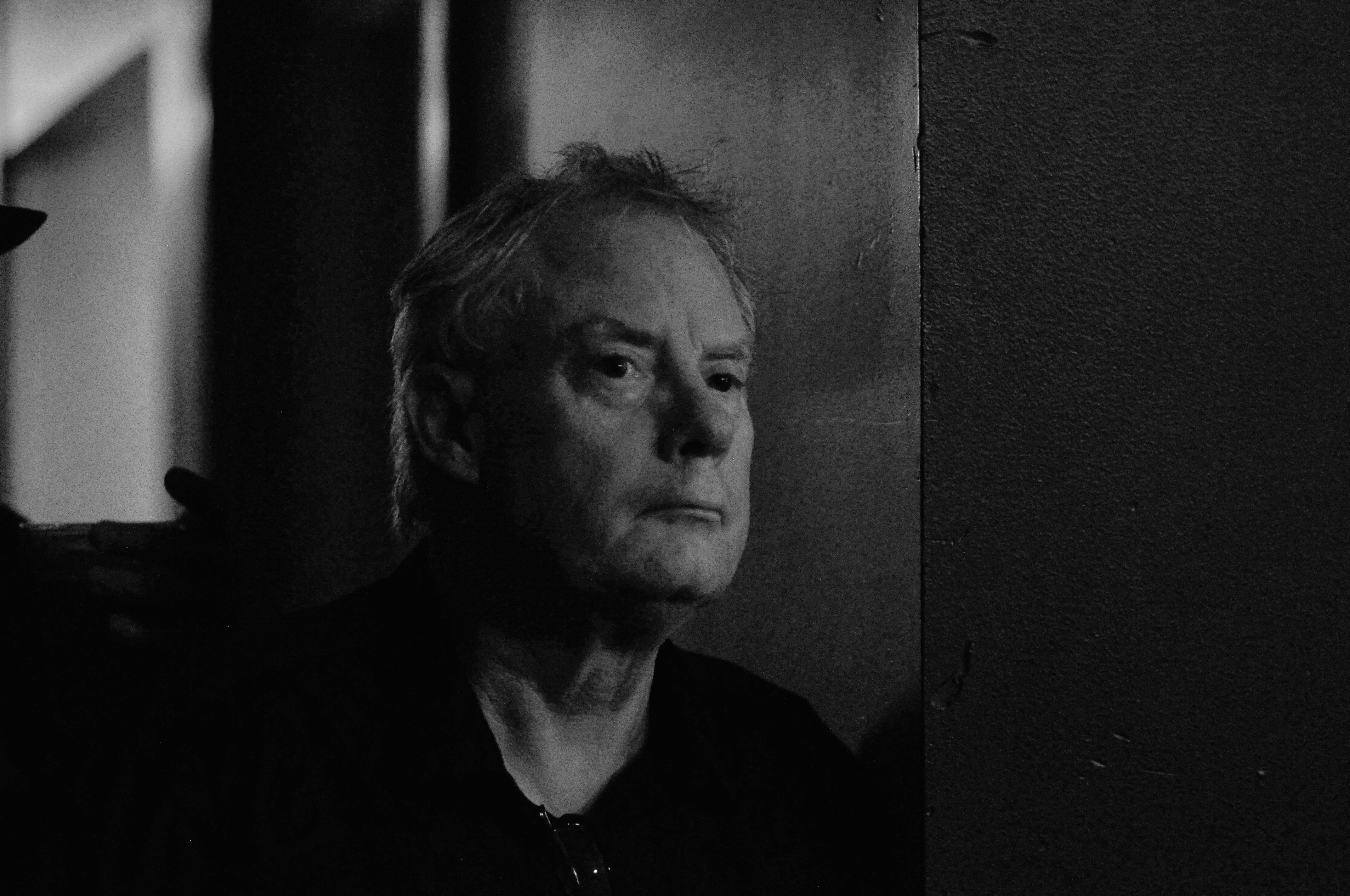 Michael Shrieve sitting in with Wayne Horvitz's Pigpen (not shown) at the OK Hotel Family Reunion, Royal Room, Columbia City, Seattle, Washington Sunday night, February 28, 2016.